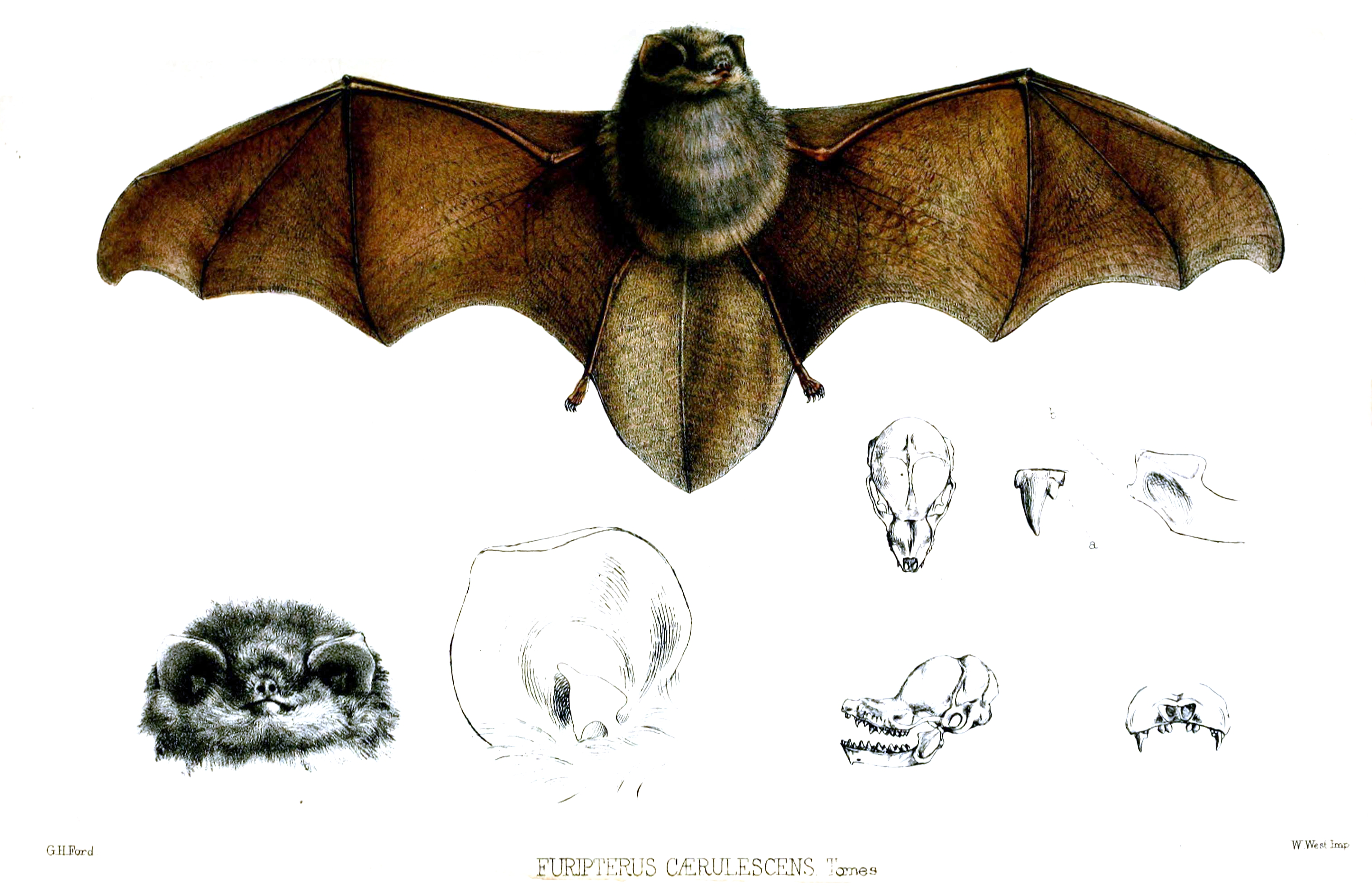 Thumbless Bat from ventral; face; ear; skull from dorsal and lateral; upper jaw from frontal. a: canine tooth; b: mandibular ramus from lateral